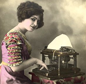 Typist at typewriter, from French postcard, c. 1910